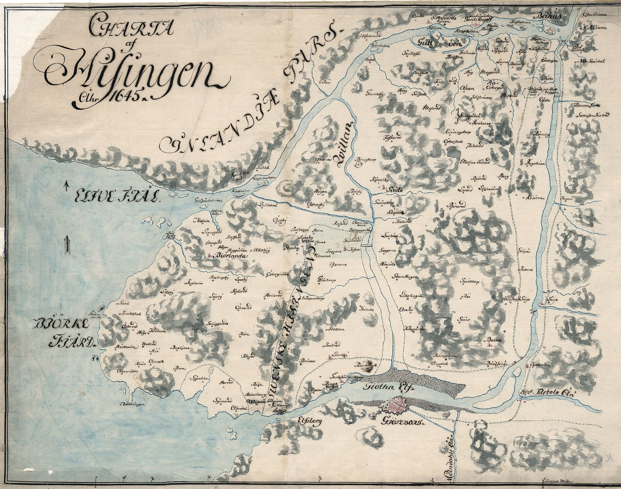 The Swedish island Hisingen with surrounding areas. Battlefield during the Danish-Norwegian attack under Hannibal Sehested in august 1645.